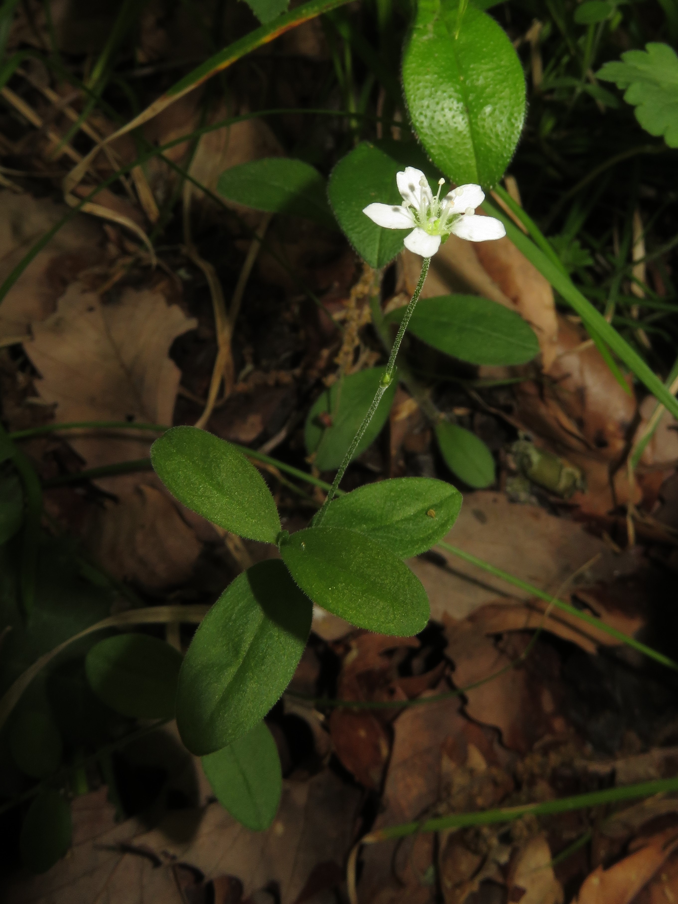 Arenaria lateriflora, Aizu area, Fukushima pref., Japan